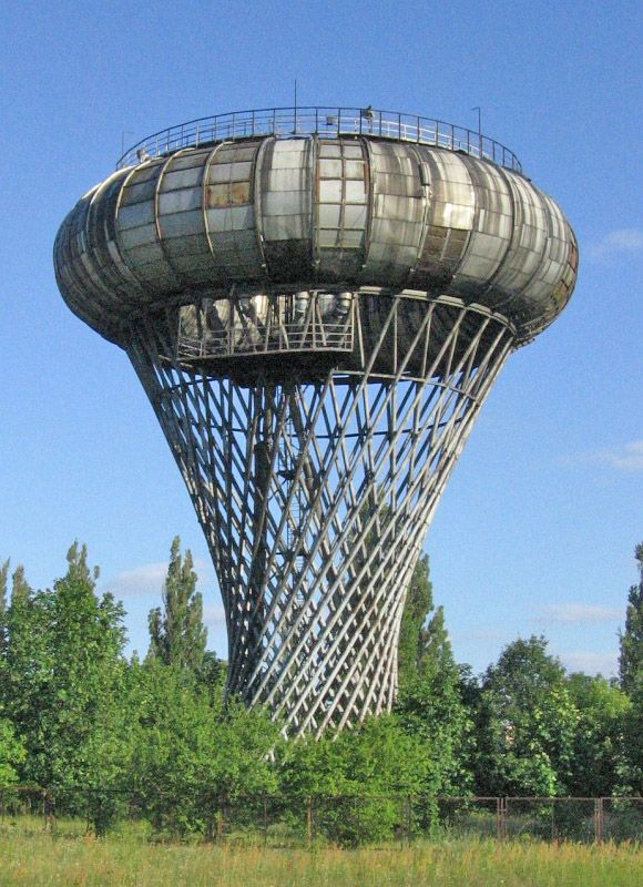 Water tower in Ciechanów, Poland. Designed by Jerzy Michał Bogusławski; built in 1972. The support structure is an hyperboloid lattice and the water reservoir is a toroid.